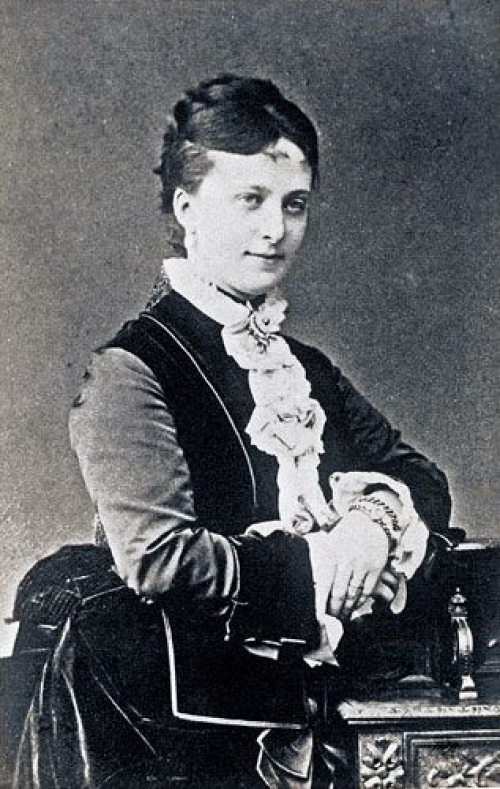 Catherine Dolgorukov